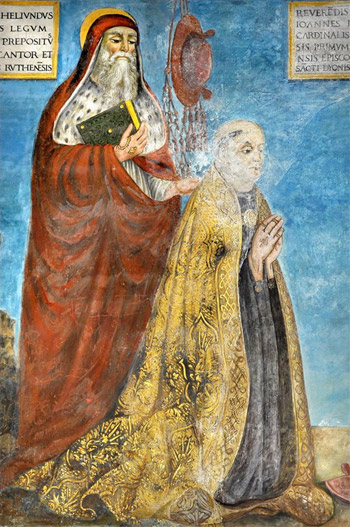 Portrait of Cardinal Jean Jouffroy in the Sainte-Croix Chapel of St. Cecilia's Cathedral in Albi, ca. 1510.